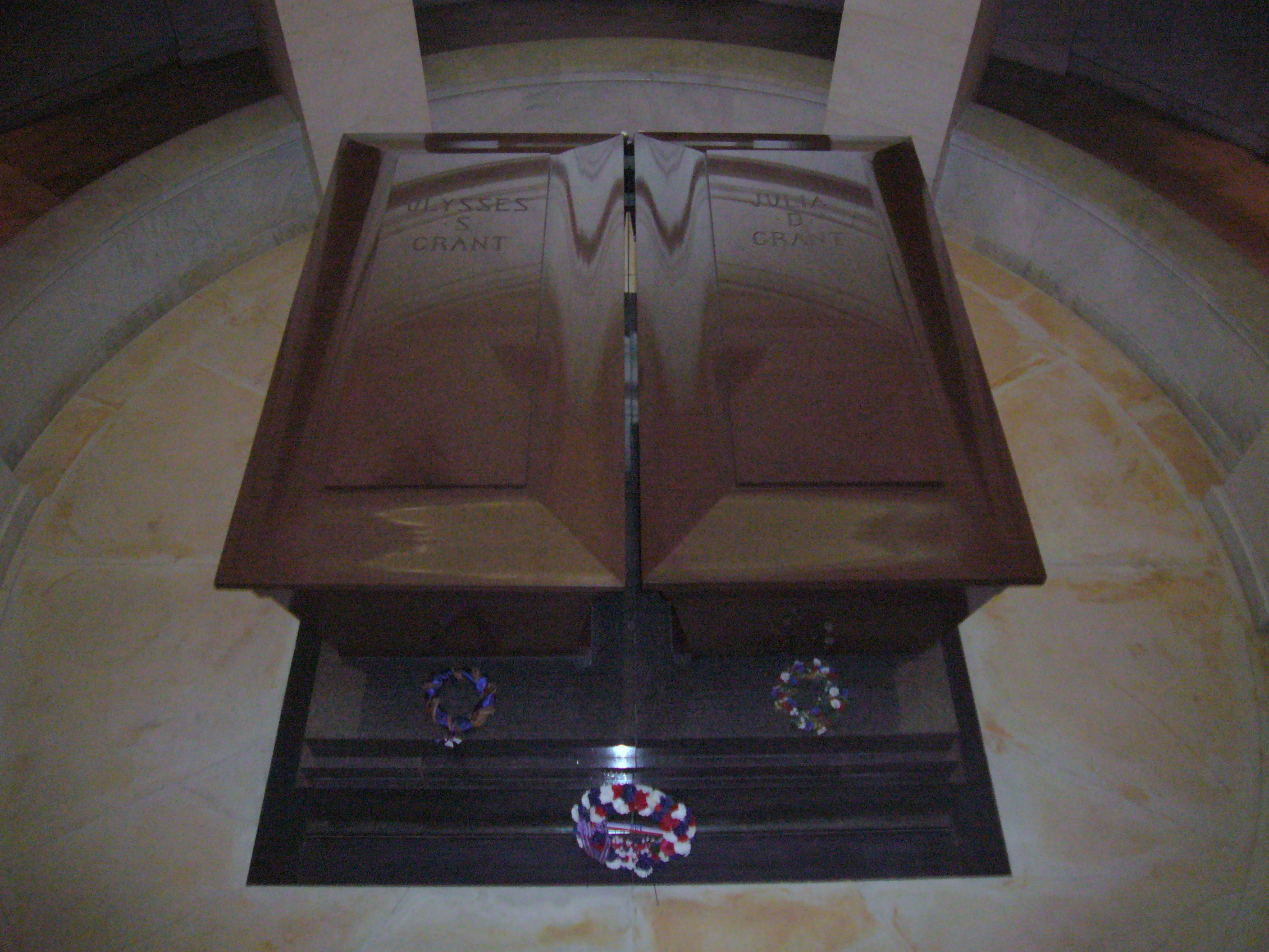 Tombs of Ulysses and Julia Grant.